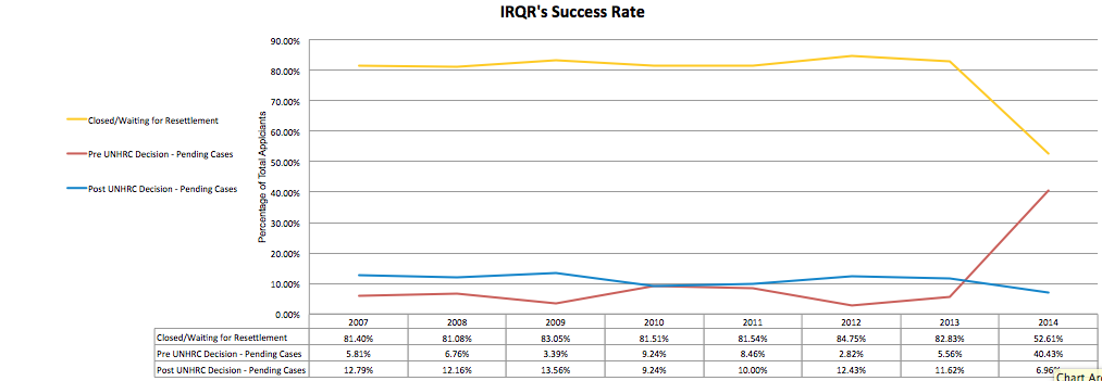 IRQR Successes Rate Chart